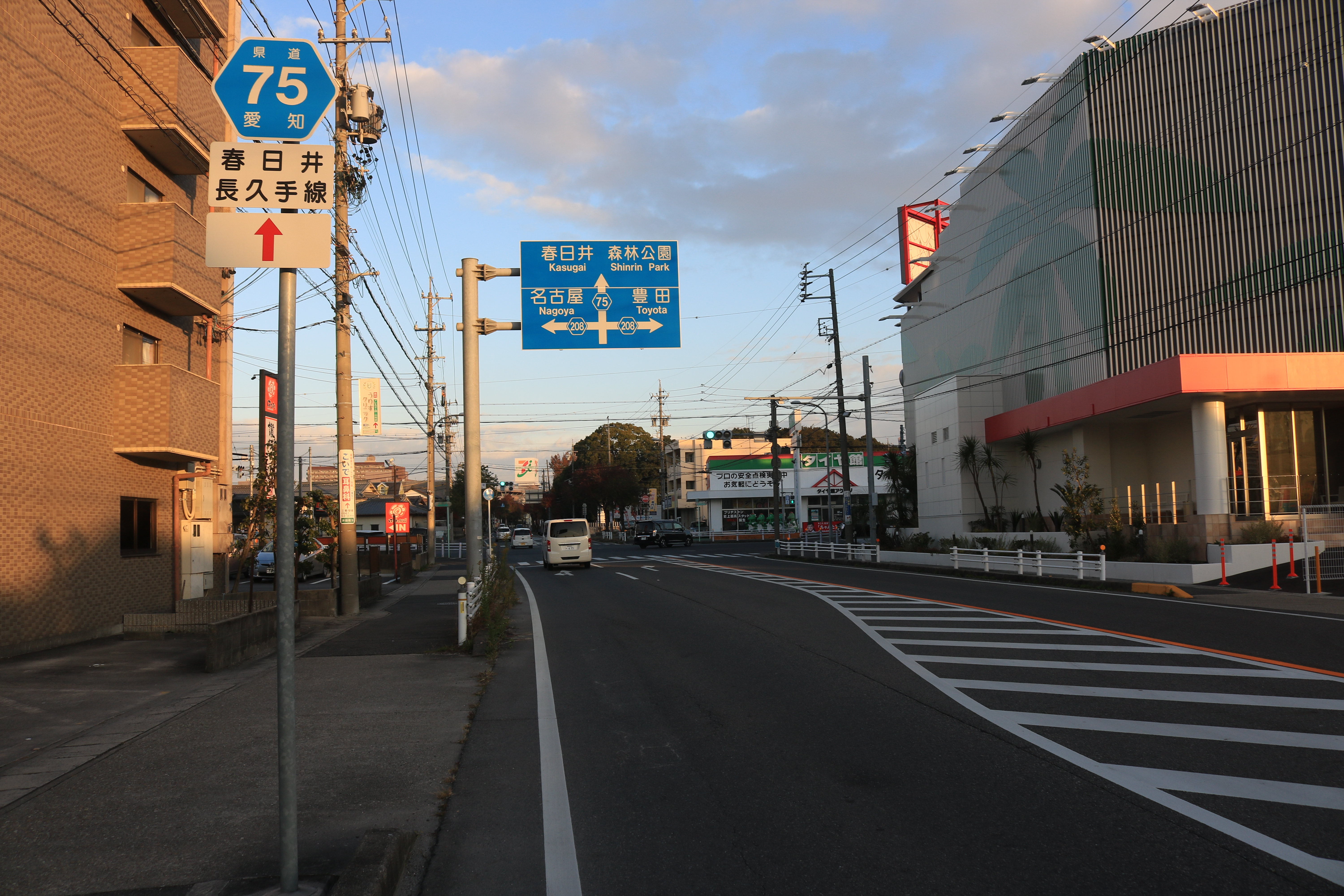 Aichi Prefectural Road Route 75 in Idacho, Owariasahi, Aichi prefecture, Japan.